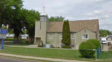 All Saints Cathedral, Edmonton, AB